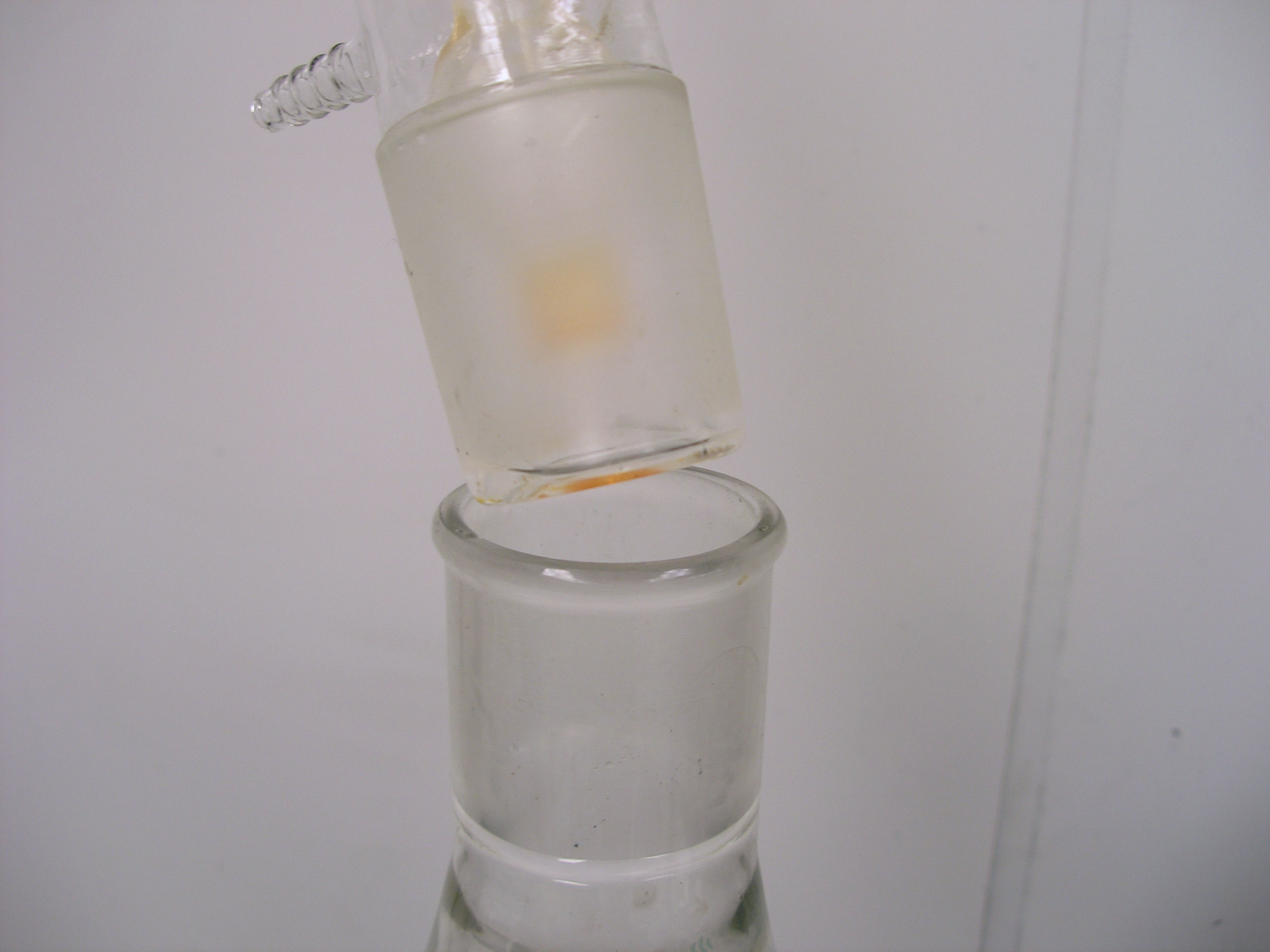 Ground glass, joint open